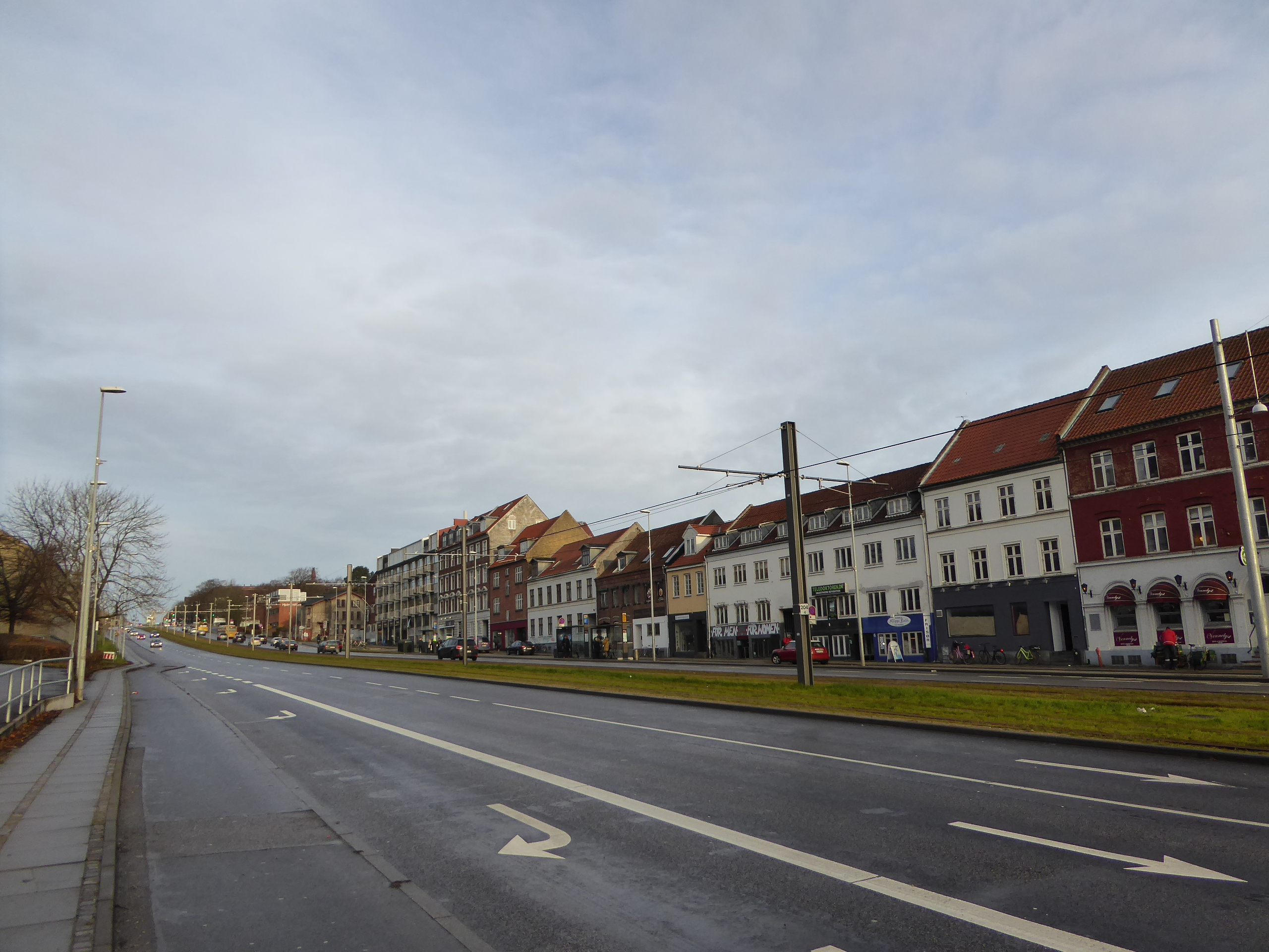 The street Nørrebrogade in Aarhus in Denmark. In the middle of the street the tracks of Aarhus Letbane.